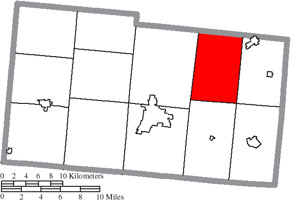 Map of the municipal and township boundaries of Champaign County, Ohio, United States, as of the 2000 census, with the location of Wayne Township highlighted. Township borders are shown only in unincorporated areas in order to differentiate incorporated and unincorporated areas more clearly.